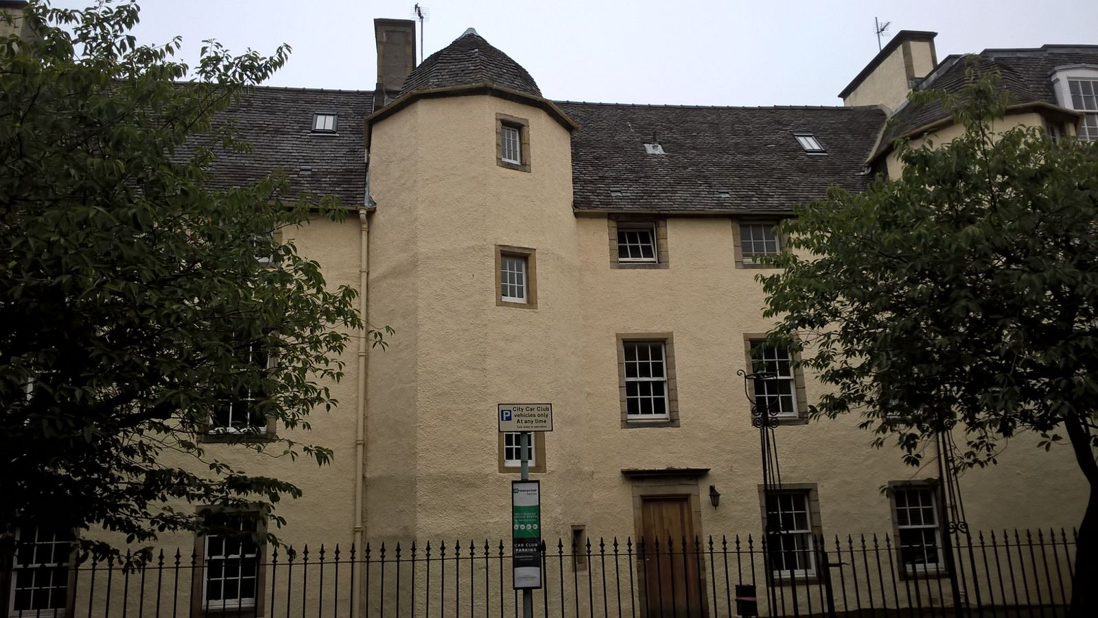 The photograph is of Dalry House, located in Dalry, Edinburgh. The house was built in 1661.